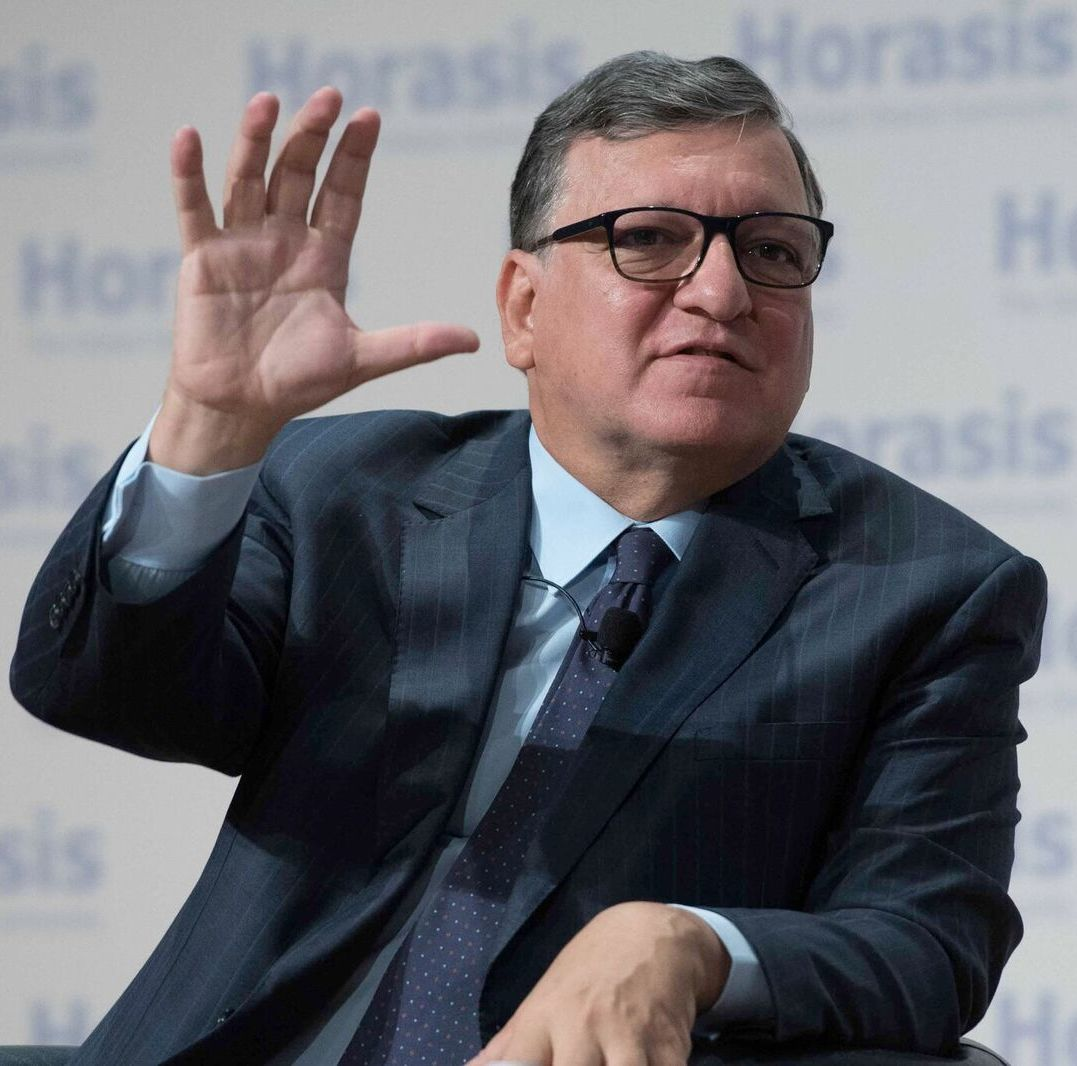 2018 Horasis Global Meeting, Cascais, Portugal, 5-8 May